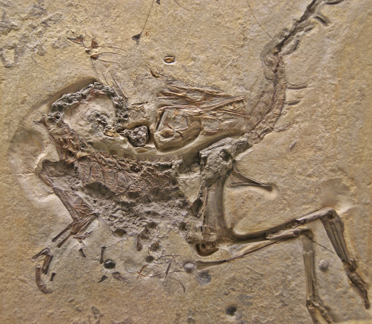 Compsognathus longipes Senckenberg Museum Frankfurt